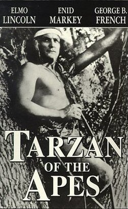 Poster for Tarzan of the Apes (film), 1918 Image - Not copyrighted.